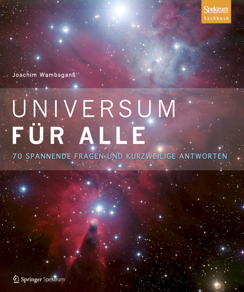 A newly published book from Springer Spektrum of 70 short popular lectures at Heidelberg University, compiled by Joachim Wambsganß, features many ESO images as well as articles covering many entertaining and fascinating aspects of astronomy. Among the forty or so contributors are Markus Pössel and Carolin Liefke, representatives of the German branch of ESO’s Science Outreach Network (ESON).